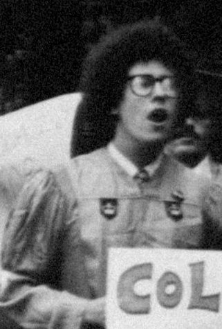 The playwright Tony Kushner on his graduation day from Columbia University, May 1978. He is one of several students and alumni protesting the university's investments in apartheid-era South Africa. Taken by Timothy Horrigan.